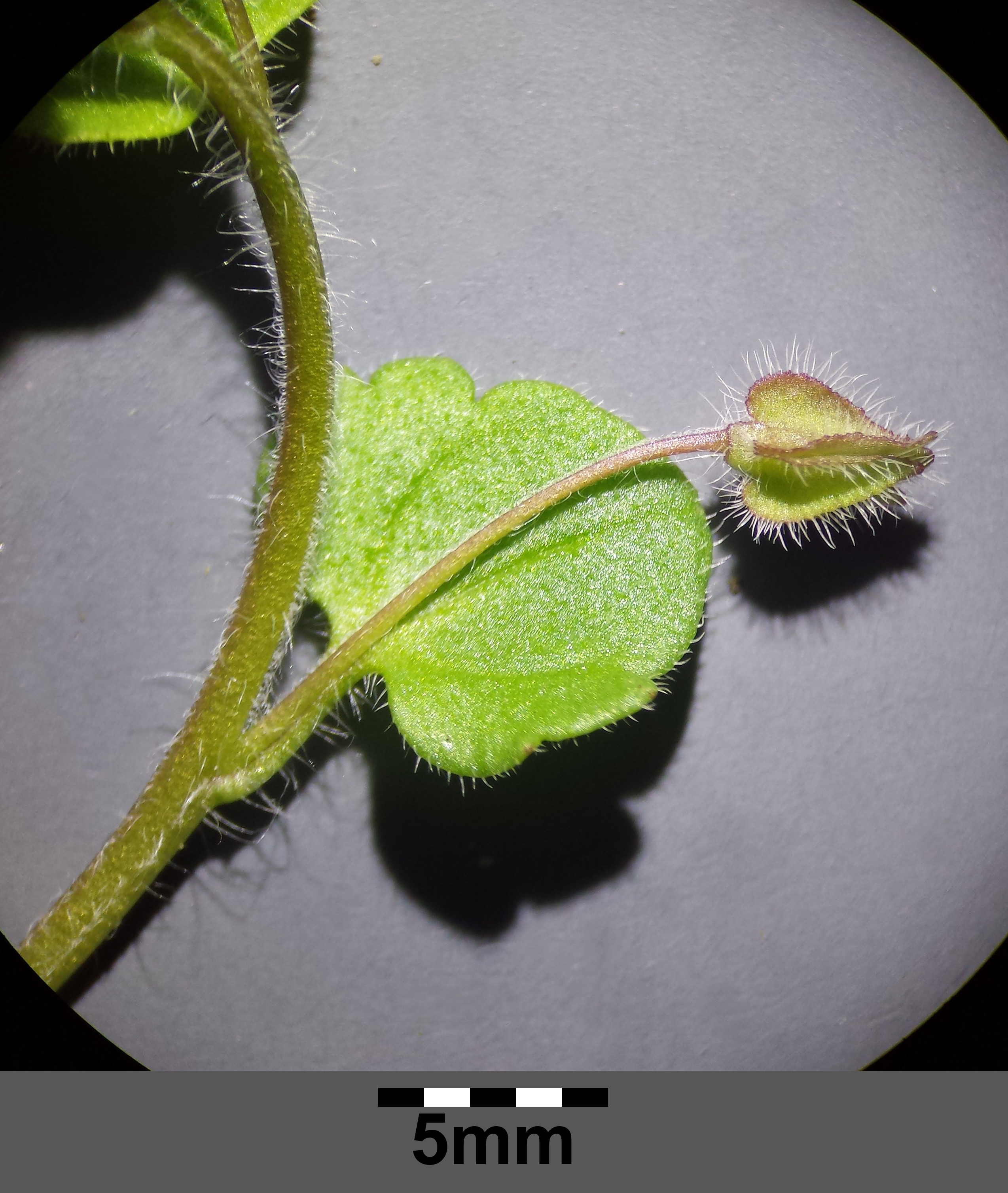 Part of an infructescence Taxonym: Veronica sublobata ss Fischer et al. EfÖLS 2008 ISBN 978-3-85474-187-9 Location: near Niederhollabrunn, district Korneuburg, Lower Austria - ca. 350 m a.s.l. Habitat: border of a shrubbery